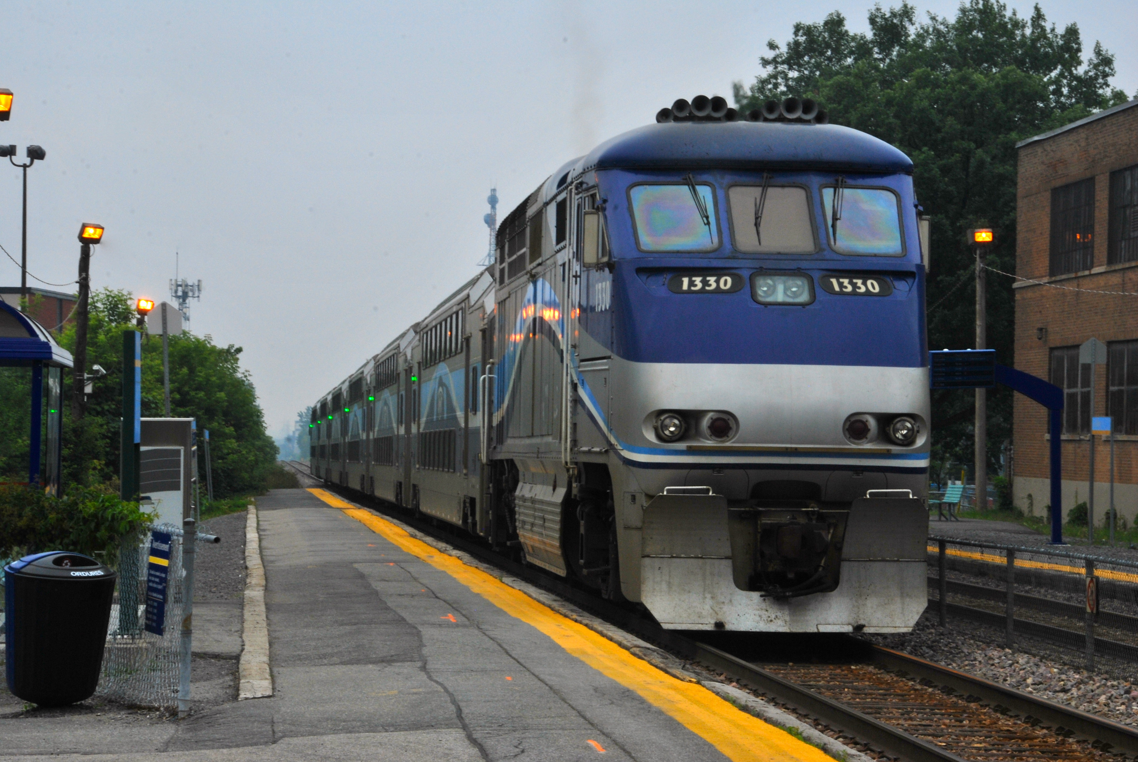 An outbound AMT train at Parc Station, headed for Saint-Jérôme.